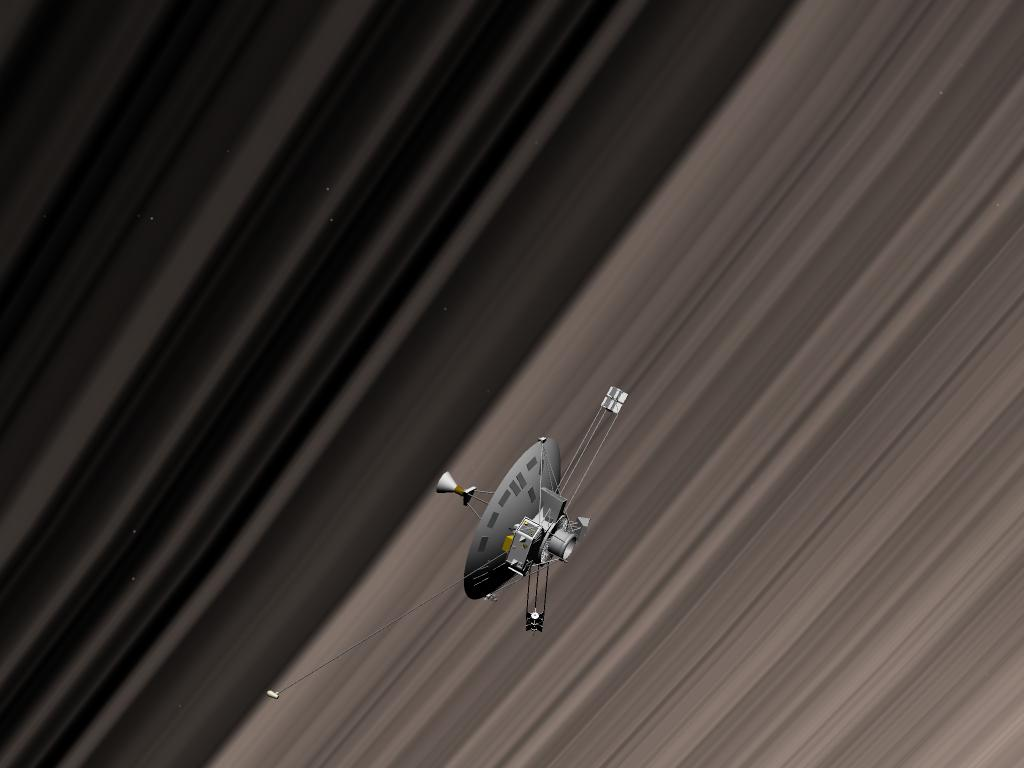 Pioneer 11 and Saturn rings on 1 September 1979.